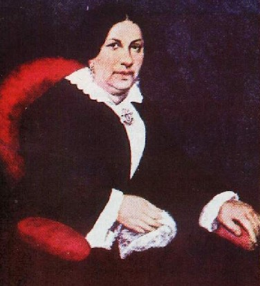 Josefa Romero Urrea de Nougues, by Ignacio Baz